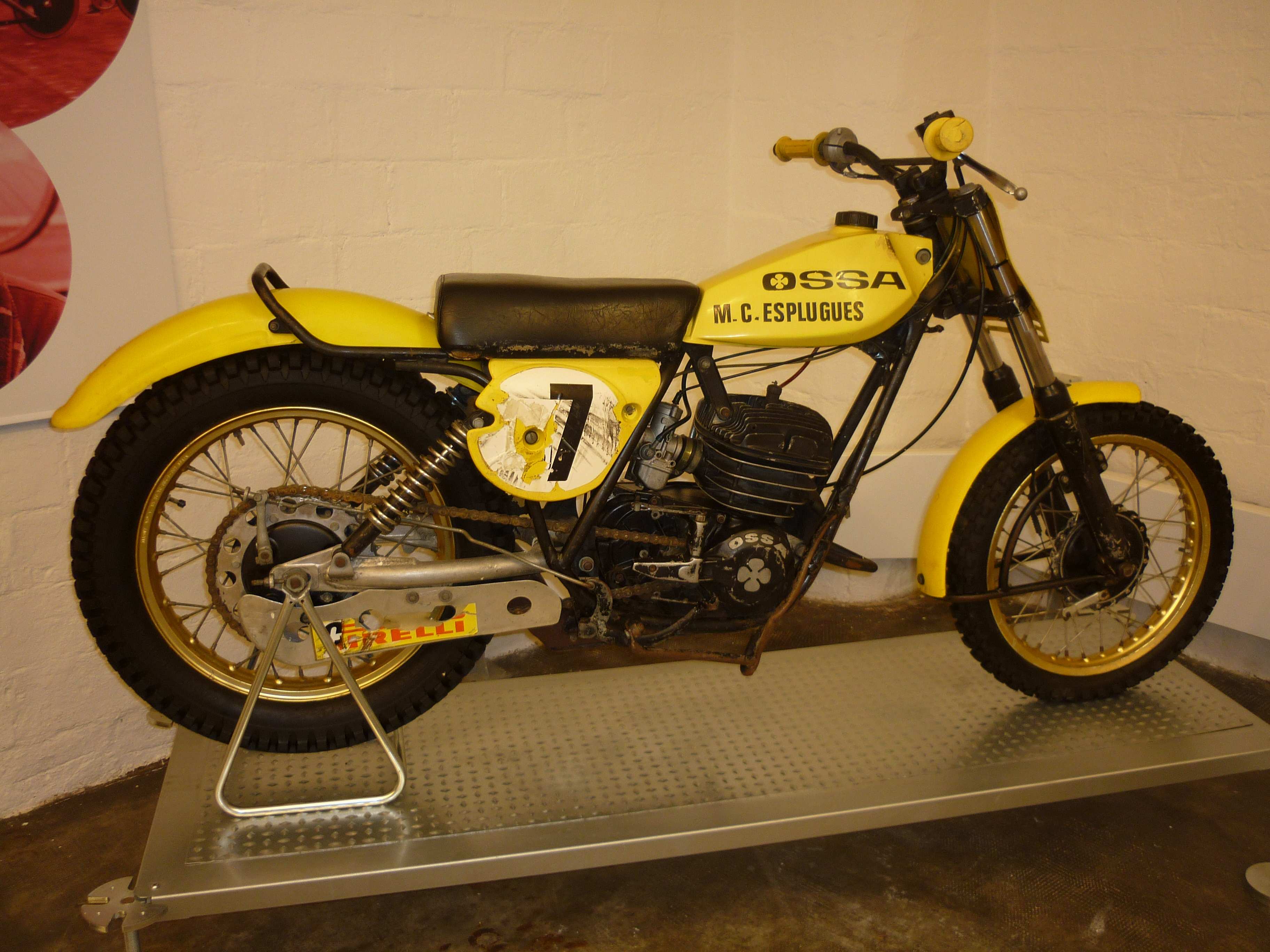 OSSA Motoball 250cc, 1980.